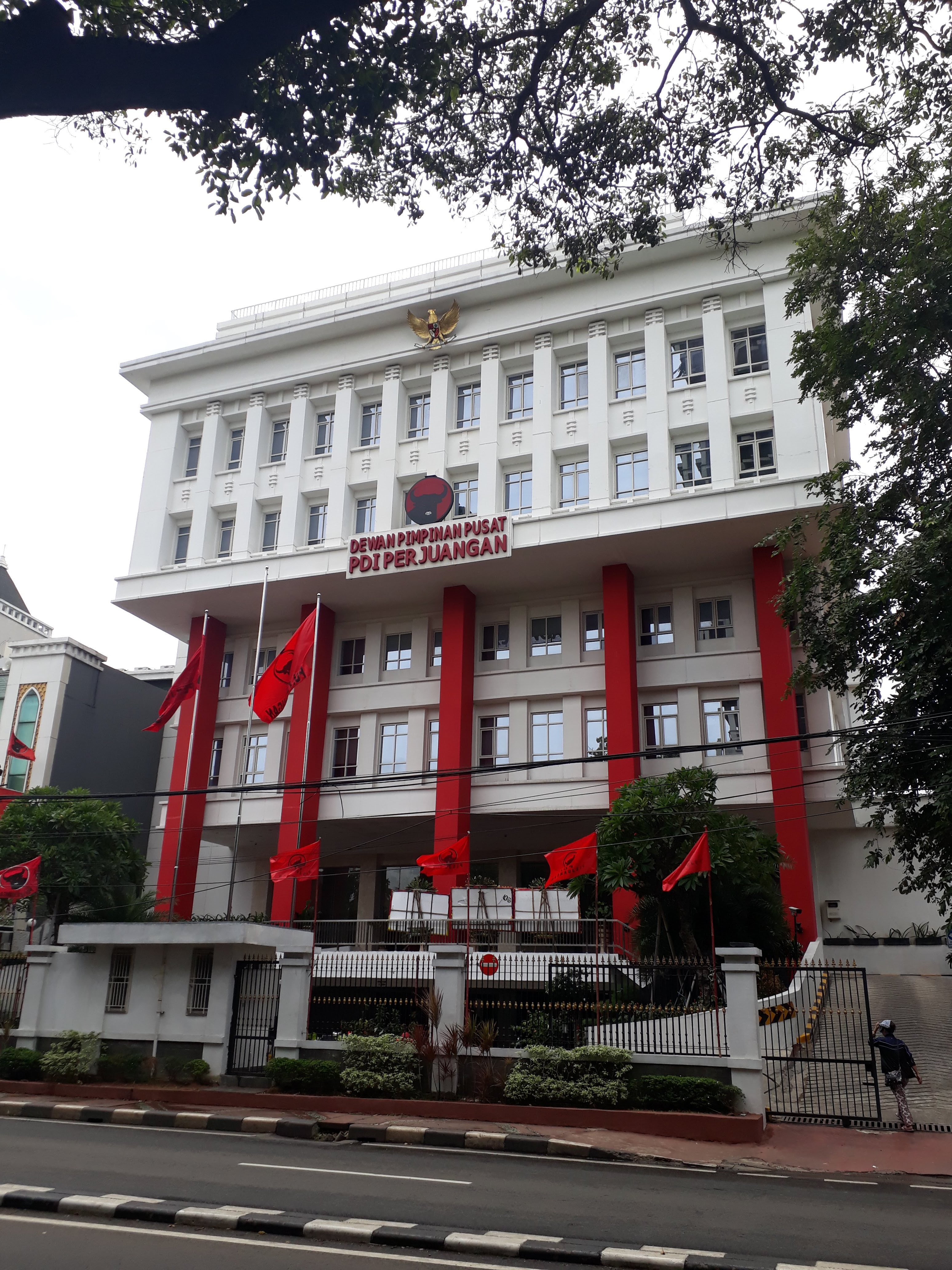 Head office of the Indonesian Democratic Party of Struggle, Jakarta